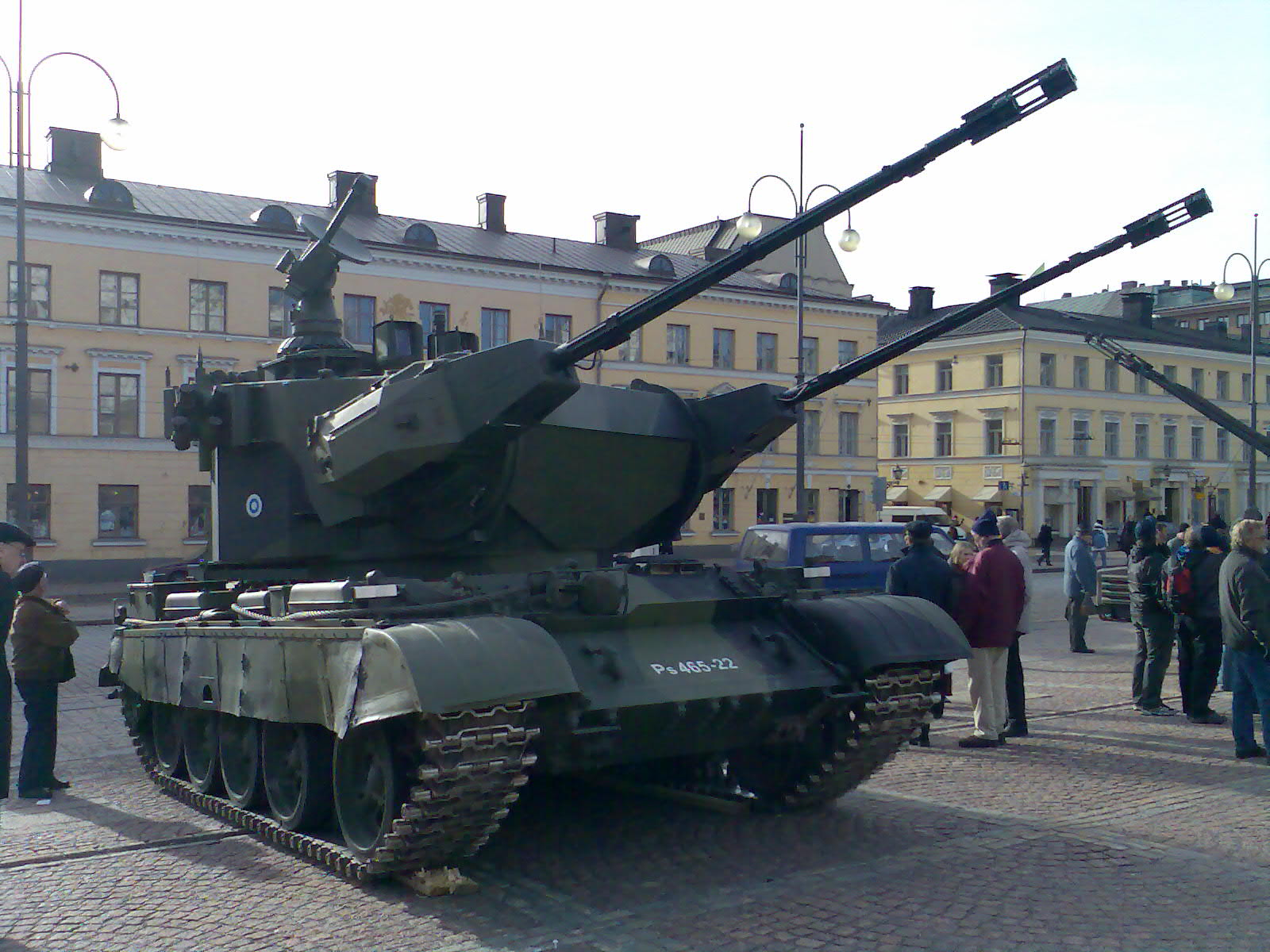 Marksman SPAAG on display in Helsinki